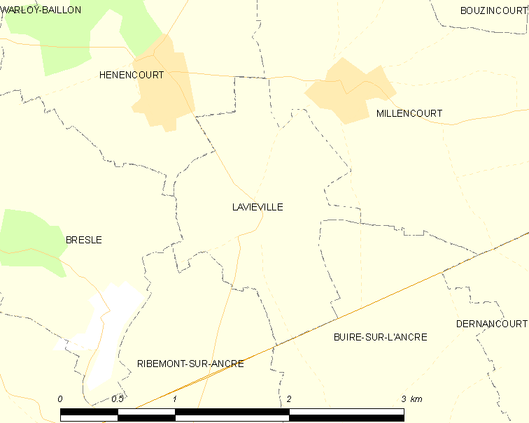 Map of French municipality Laviéville